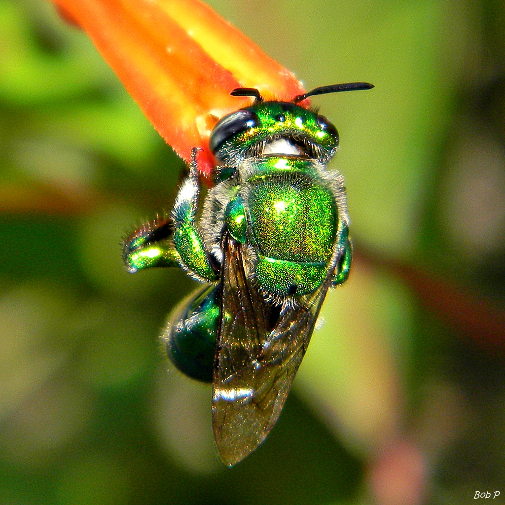 I visited the Green Orchid Bees again and found this one perched upon a firebush flower, using it's long proboscis to drink nectar. Euglossa viridissima is a fairly recently introduced non-native species from Mexico & Central America. Today some appeared deep emerald green and others yellow-green. They hover a lot and are loud & enthusiastic buzzers! Males collect and store fragrance from flowers (mostly esters) to use later in courtship rituals. (I will give equal time to the little blue-green metallic native Halictid bees that were also there. They are tiny and actually disappear into the firebush flowers to pollinate them!)